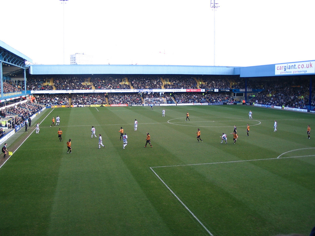 Photo taken by Charruss2491